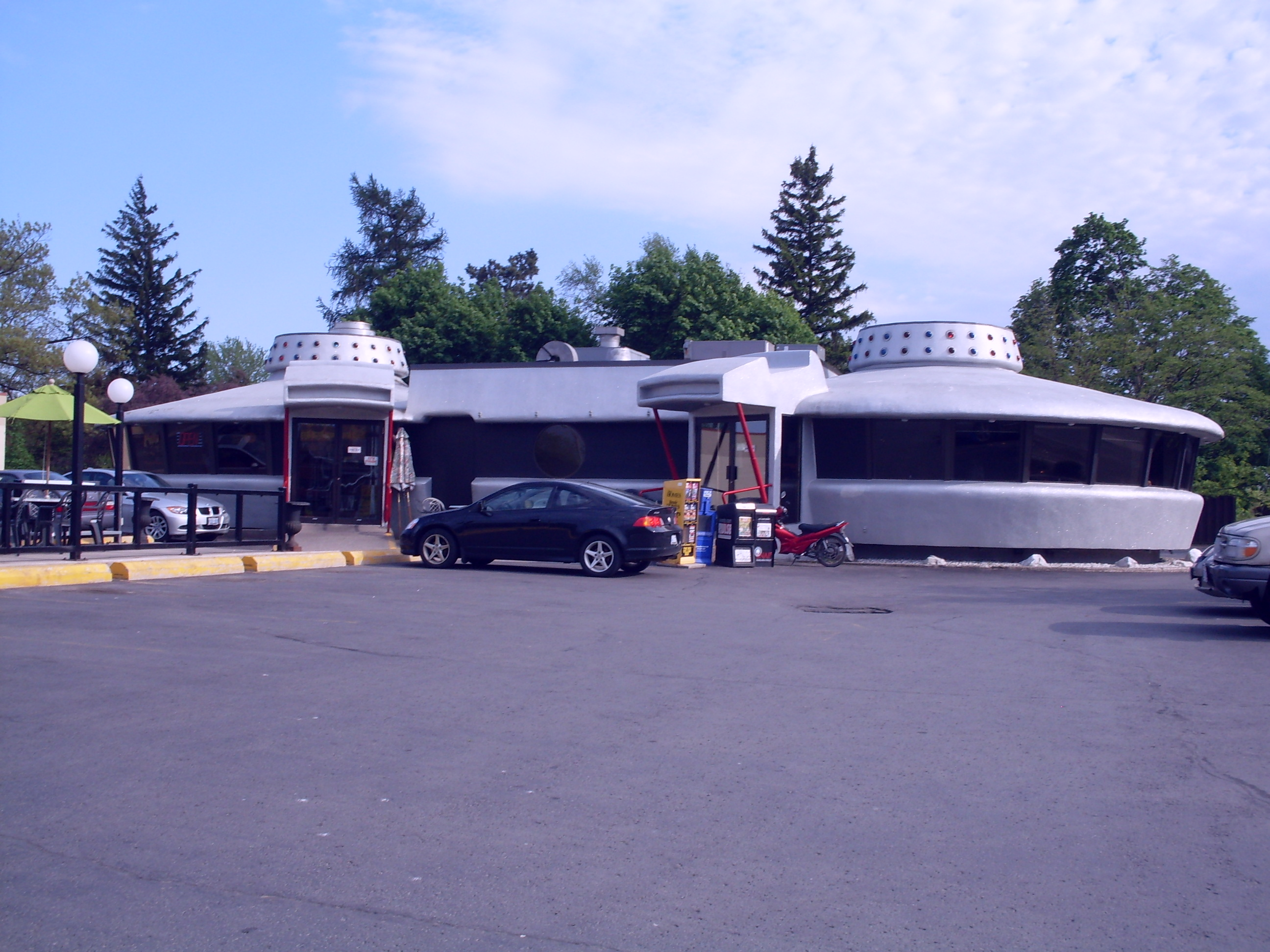 A Flying Saucer Spotted in Niagara Falls